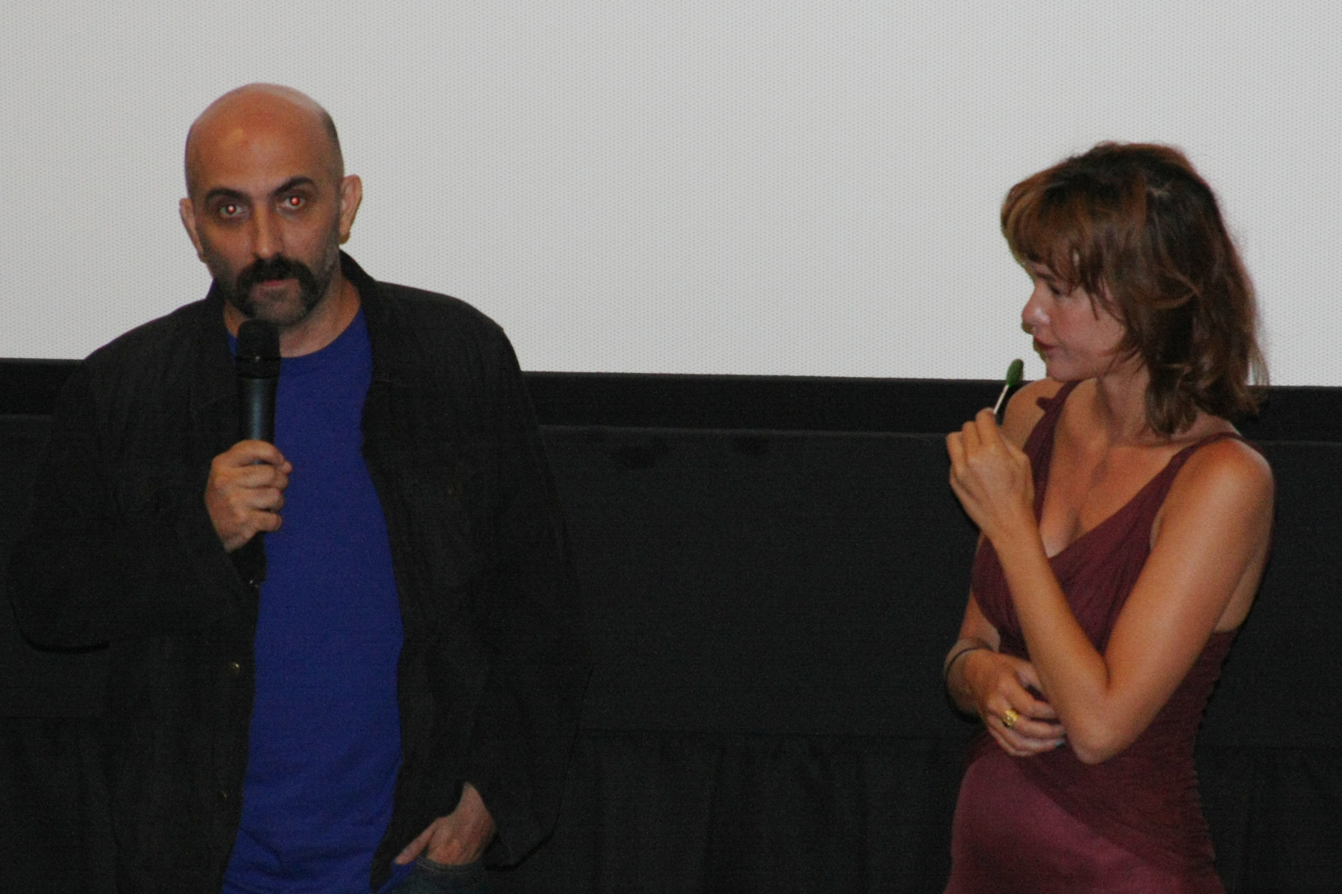 Enter the Void Q&A